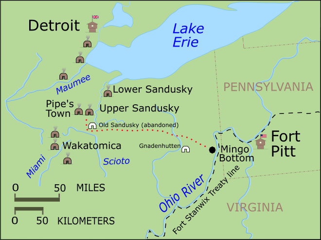 Map of the Crawford expedition made by Kevin Myers, using Inkscape. Sources: Brown, Parker B. "The Battle of Sandusky: June 4–6, 1782". Western Pennsylvania Historical Magazine 65 (April 1982): 115–151. ———. "The Search for the William Crawford Burn Site: An Investigative Report". Western Pennsylvania Historical Magazine 68 (January 1985): 43–66. ———. "The Historical Accuracy of the Captivity Narrative of Doctor John Knight". Western Pennsylvania Historical Magazine 70 (January 1987): 53–67. Tanner, Helen Hornbeck, ed. Atlas of Great Lakes Indian History. Norman: University of Oklahoma Press, 1987. ISBN 0806120568. Taken from: Crawford expedition